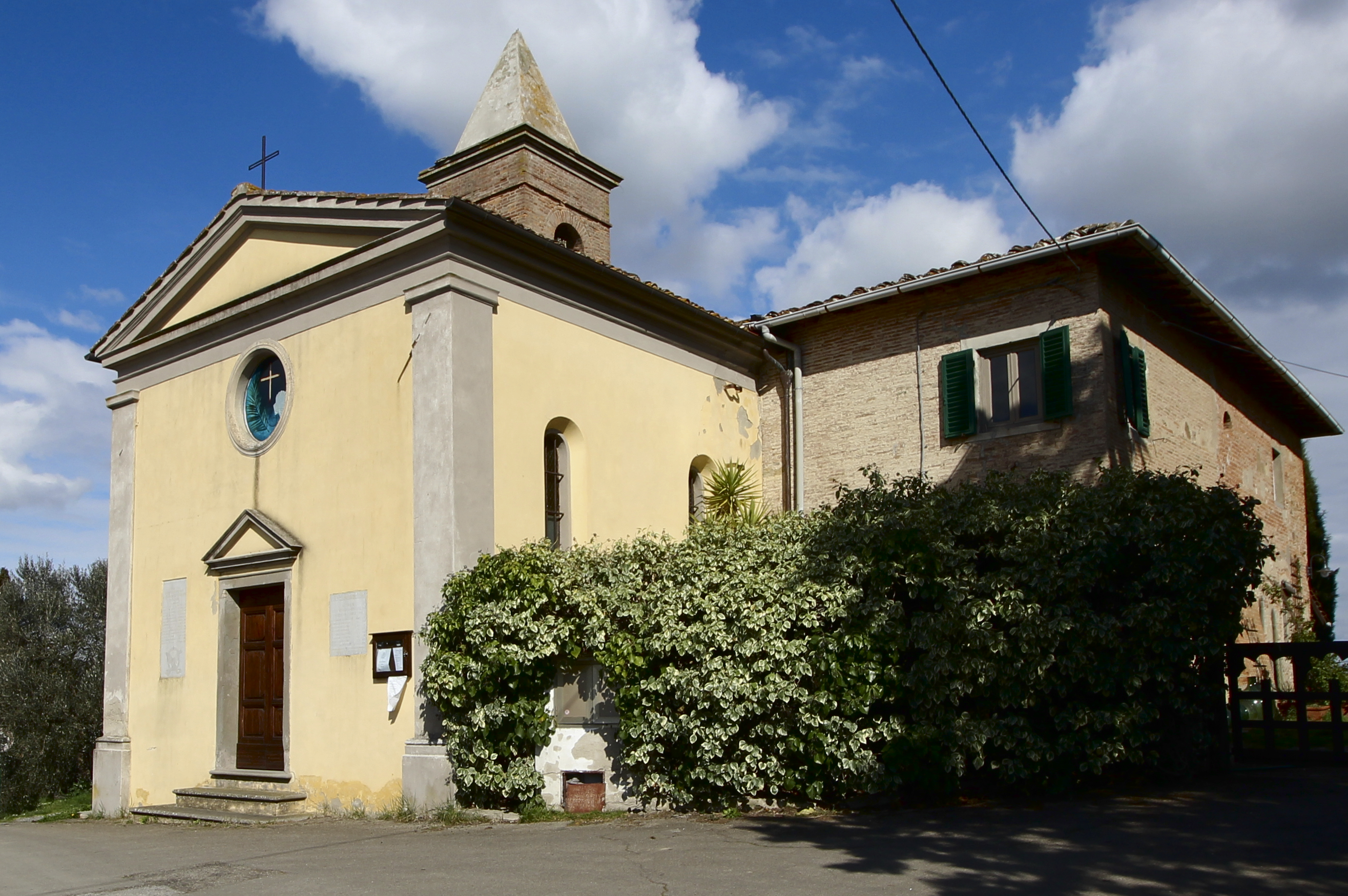 church Santa Lucia, Cusignano, hamlet of San Miniato, Province of Pisa, Tuscany, Italy